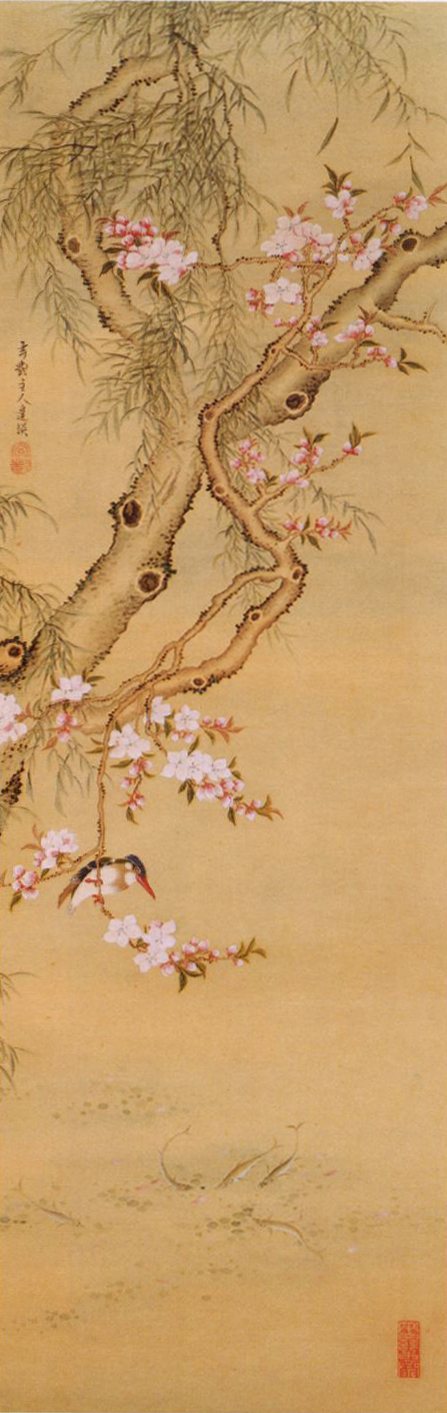 A_painting_of_birds_and_flowers 柳に翡翠図 絹本着色